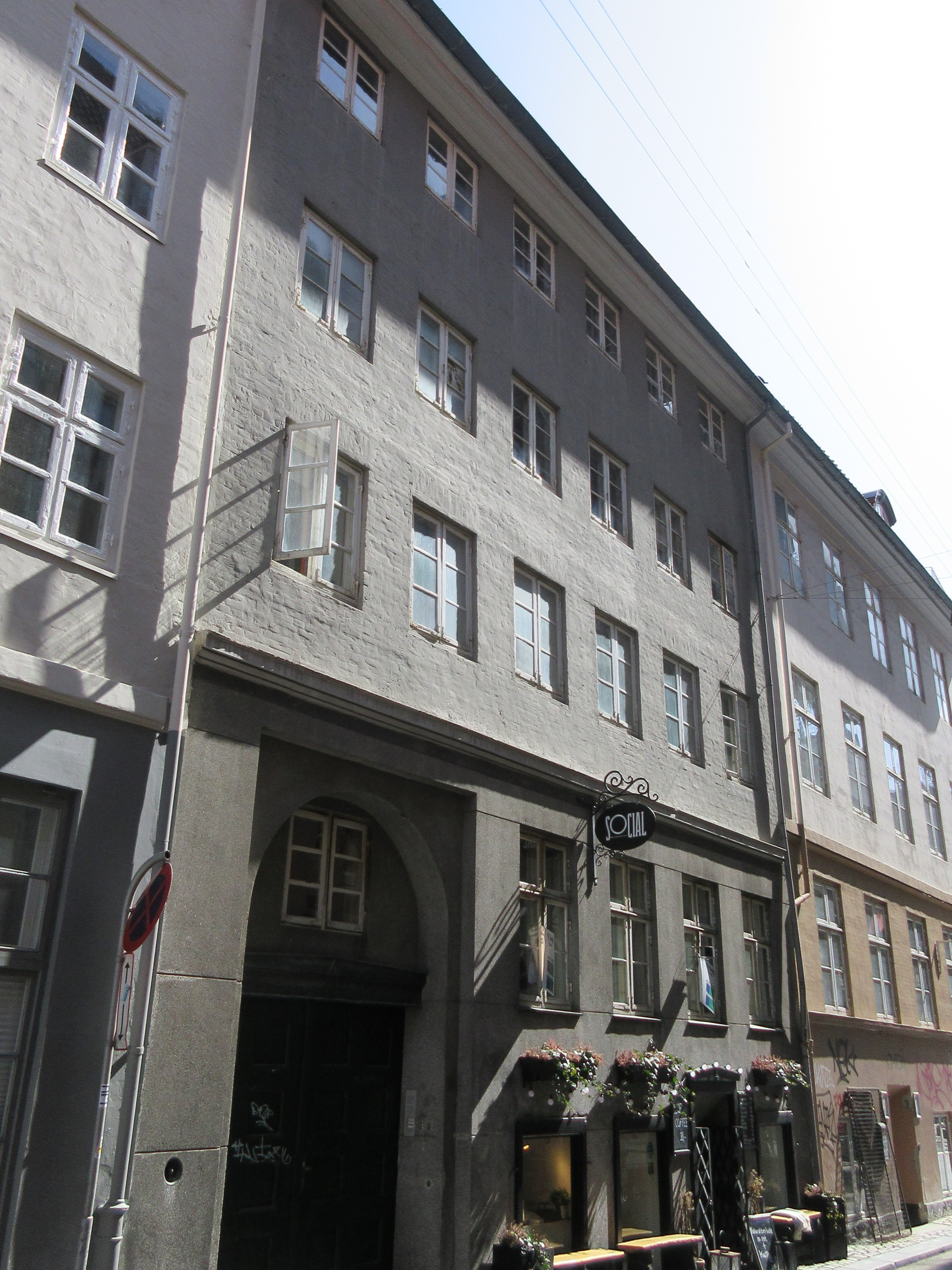 Sankt Gertruds Stræde 4 in Copenhagen, Denmark